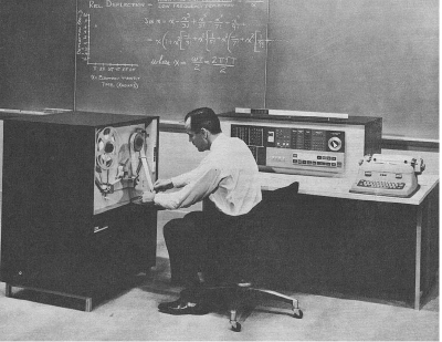 IBM 1620 Model I Level A (prototype) A photograph from original IBM announcement of the 1620.